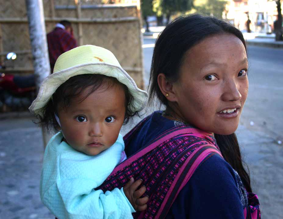 Mother and child in Bhutan